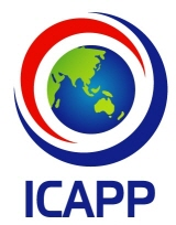 International Conference of Asian Political Parites